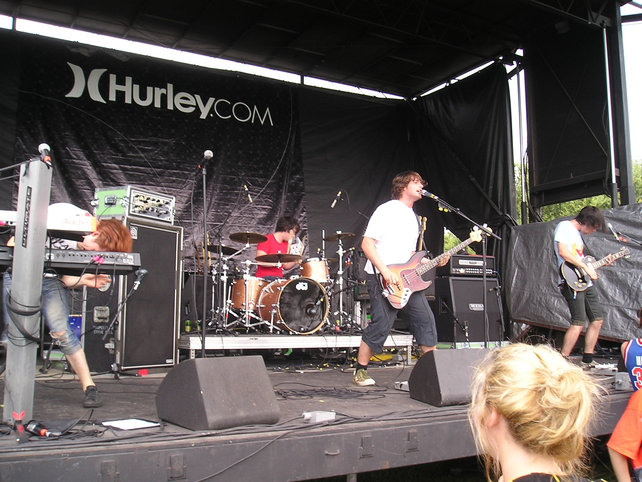 A live peformance by The Automatic on the Vans Warped Tour 2007 in St.Petersburg.